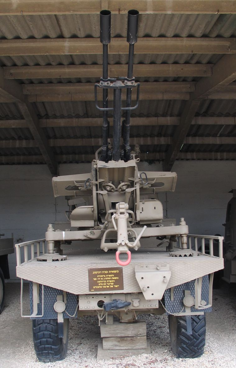 Description: ZU-23-2 23 mm anti-aircraft cannon mounted on Unimog light truck in Batey ha-Osef Museum, Tel Aviv, Israel. 2005. The vehicle was used by arab militants. Source: Photo by me, User:Bukvoed.